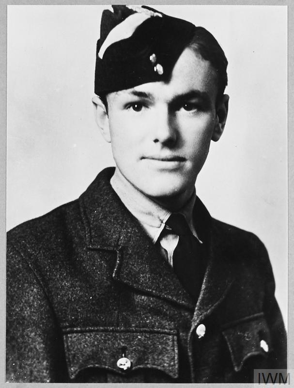 Portrait of Arthur Lewis [sic] Aaron RAF, awarded the Victoria Cross: Italy, 13 August 1943.